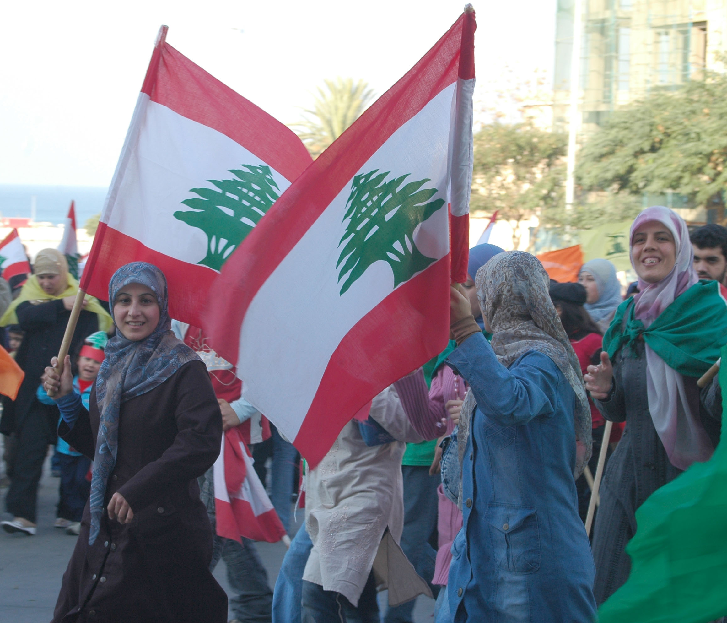 "women with cedar flags" - Lebanon protest